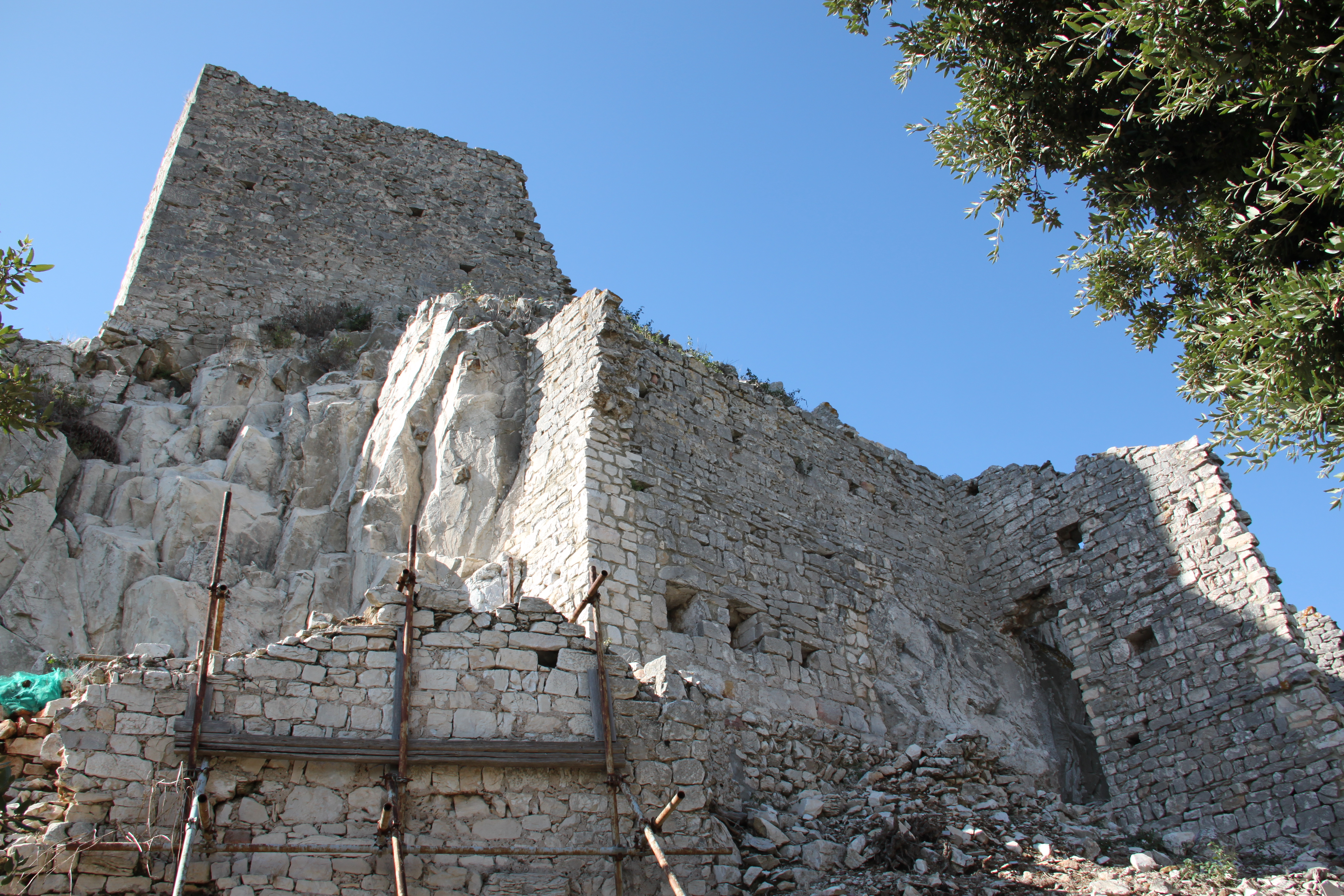 Rocca San Silvestro: Citadel with donjon